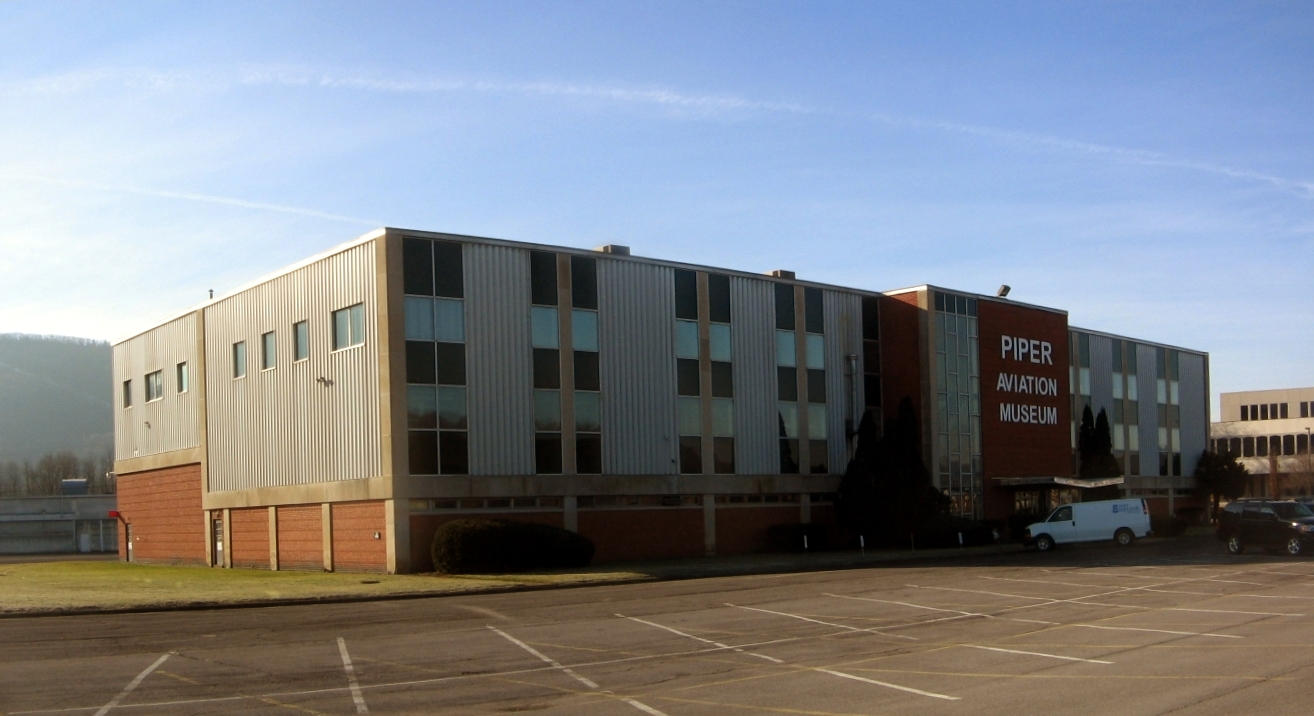 Piper Aviation Museum at the airport in Lock Haven, Clinton County, Pennsylvania, USA